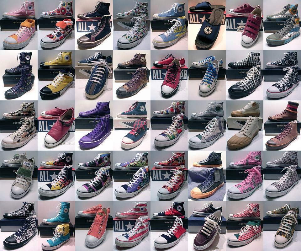 40 different Converse variations from the hundreds of variations created.